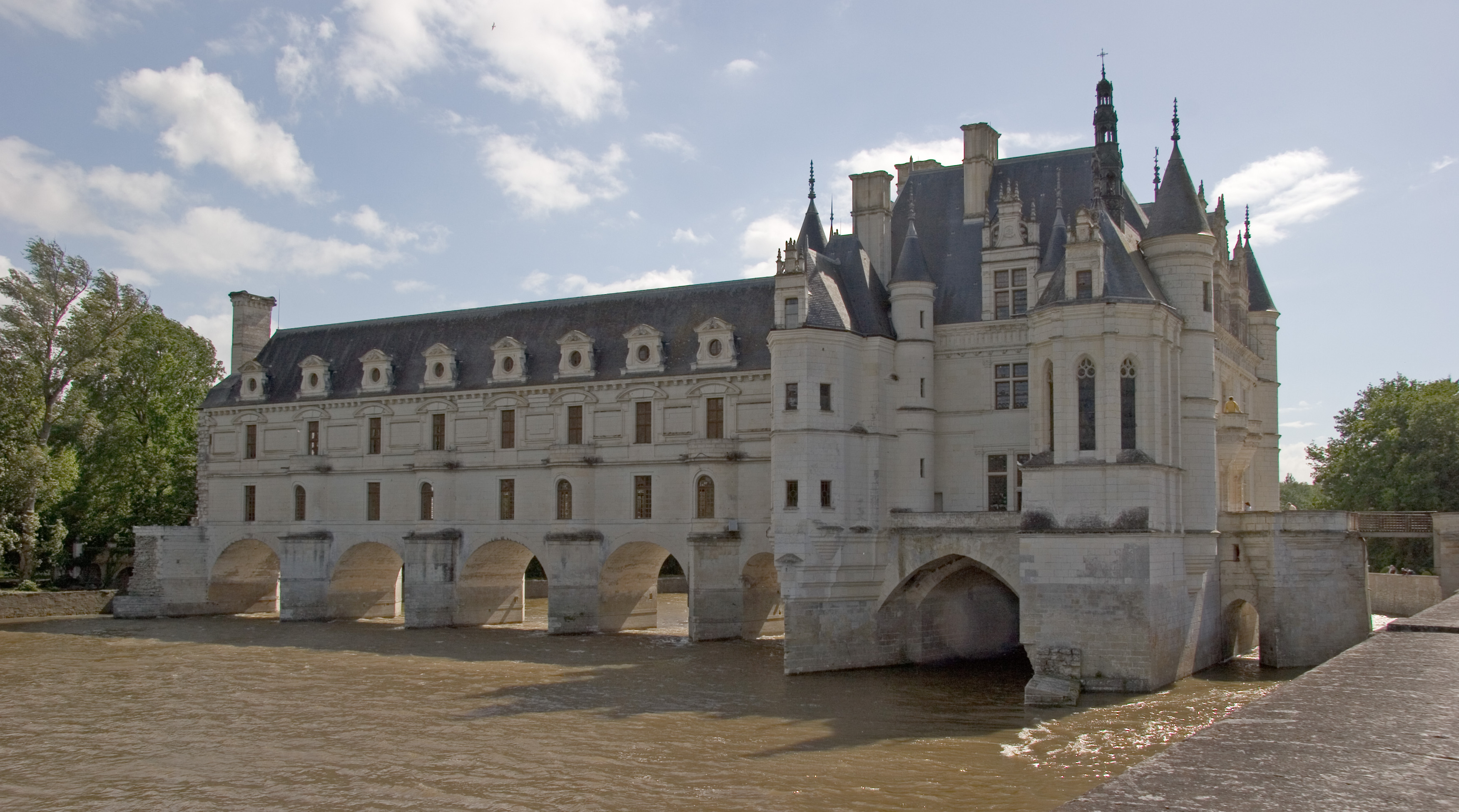 Château de Chenonceau, north-eastern aspect